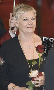 Dame Judi Dench, arrival for the premiere of "Notes on a scandal", Berlinale palace, Potsdamer Platz, Berlin in 2007